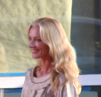 Joely Richardson at the Bourne Ultimatum premiere at the Cinerama Dome in Hollywood, CA on July 25, 2007.